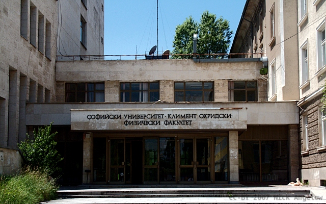 Physics, Sofia University